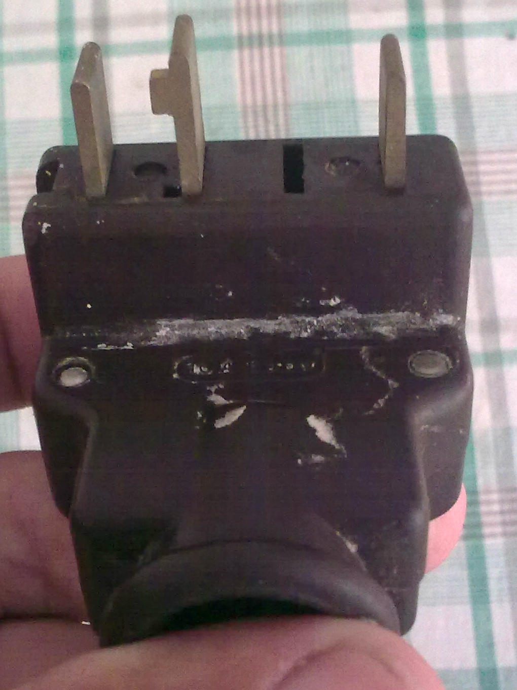 Old Danish 380/400 volt 4pin plug from an electric 2500 watt heater